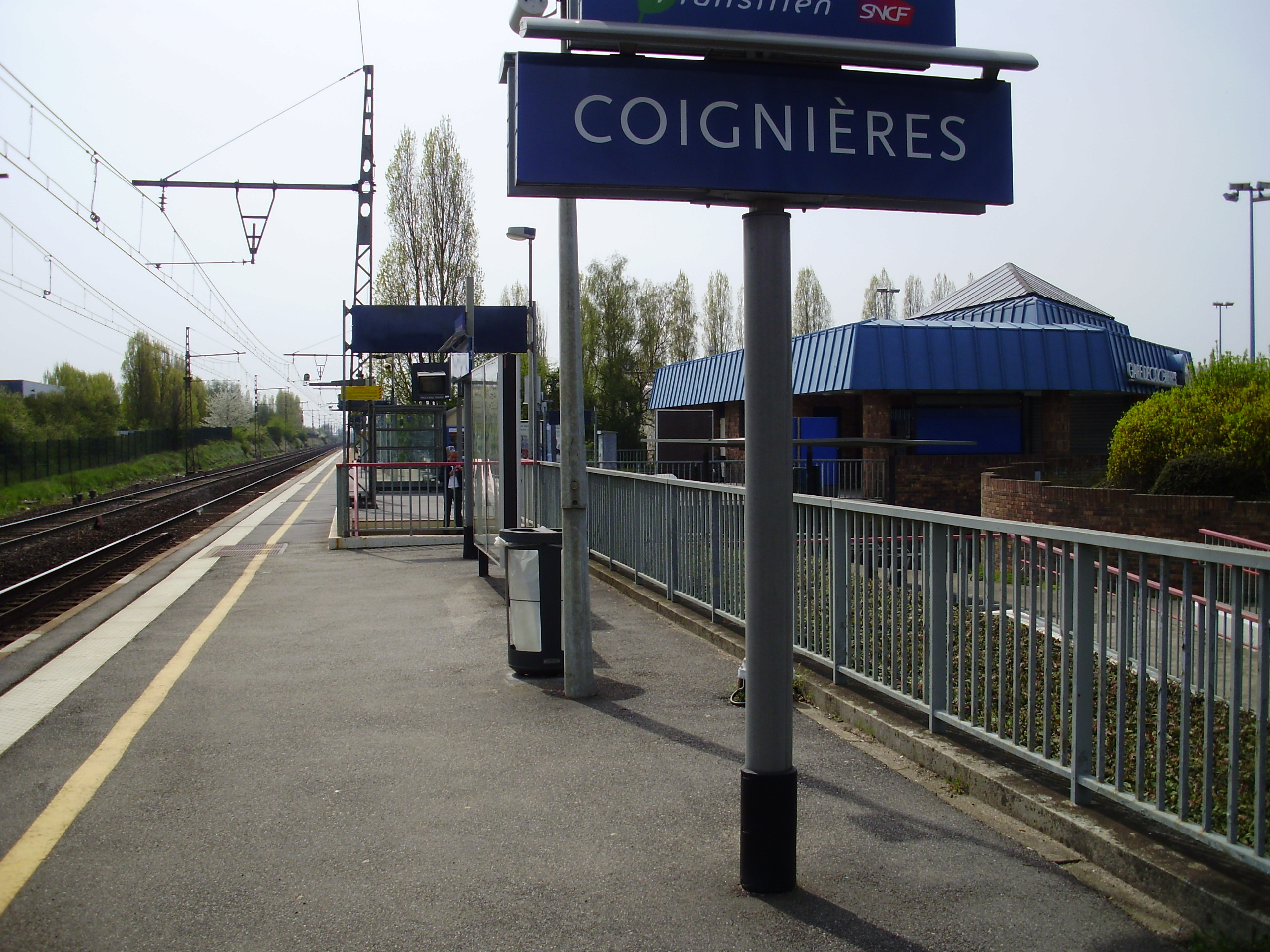 Coignières station (platform for trains towards Paris), Yvelines, France